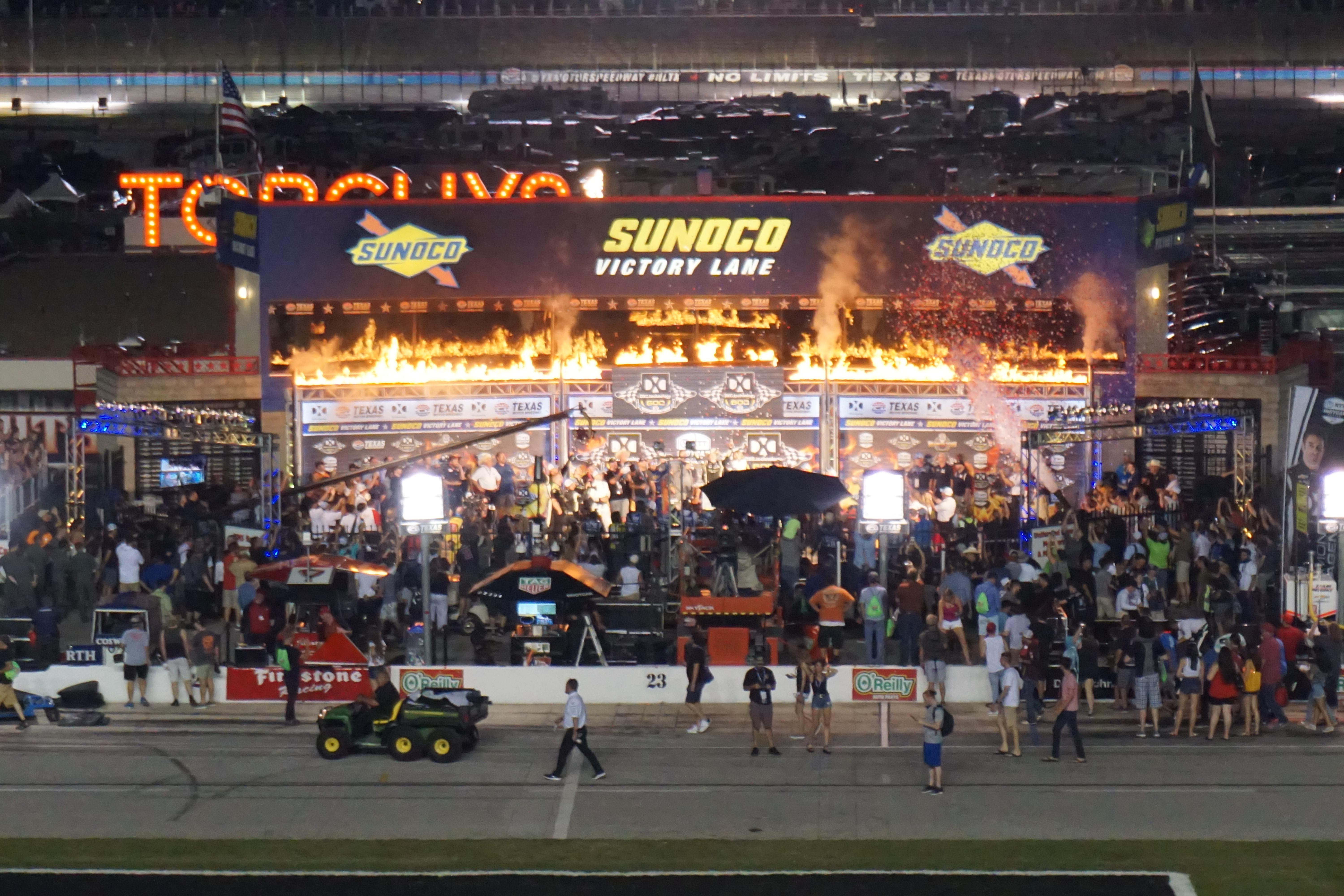 Victory lane after the 2019 DXC Technology 600 at Texas Motor Speedway in Fort Worth, Texas (United States).